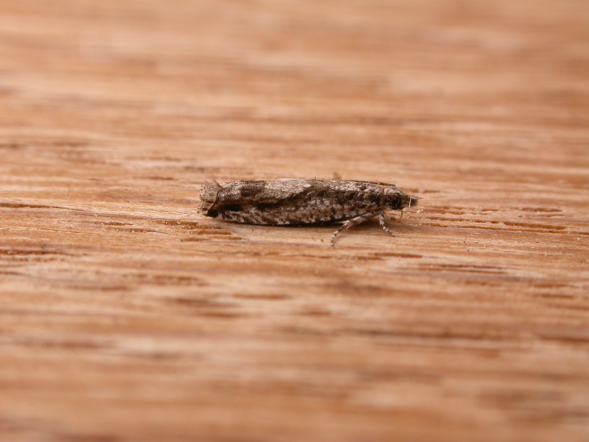 Holocola thalassinana (Meyrick, 1881), to MV light, Aranda, ACT, 19/20 October 2010